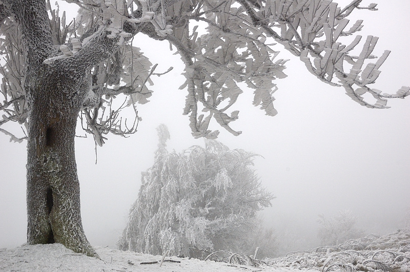 Hard rime on the trees in the Little Carpathians